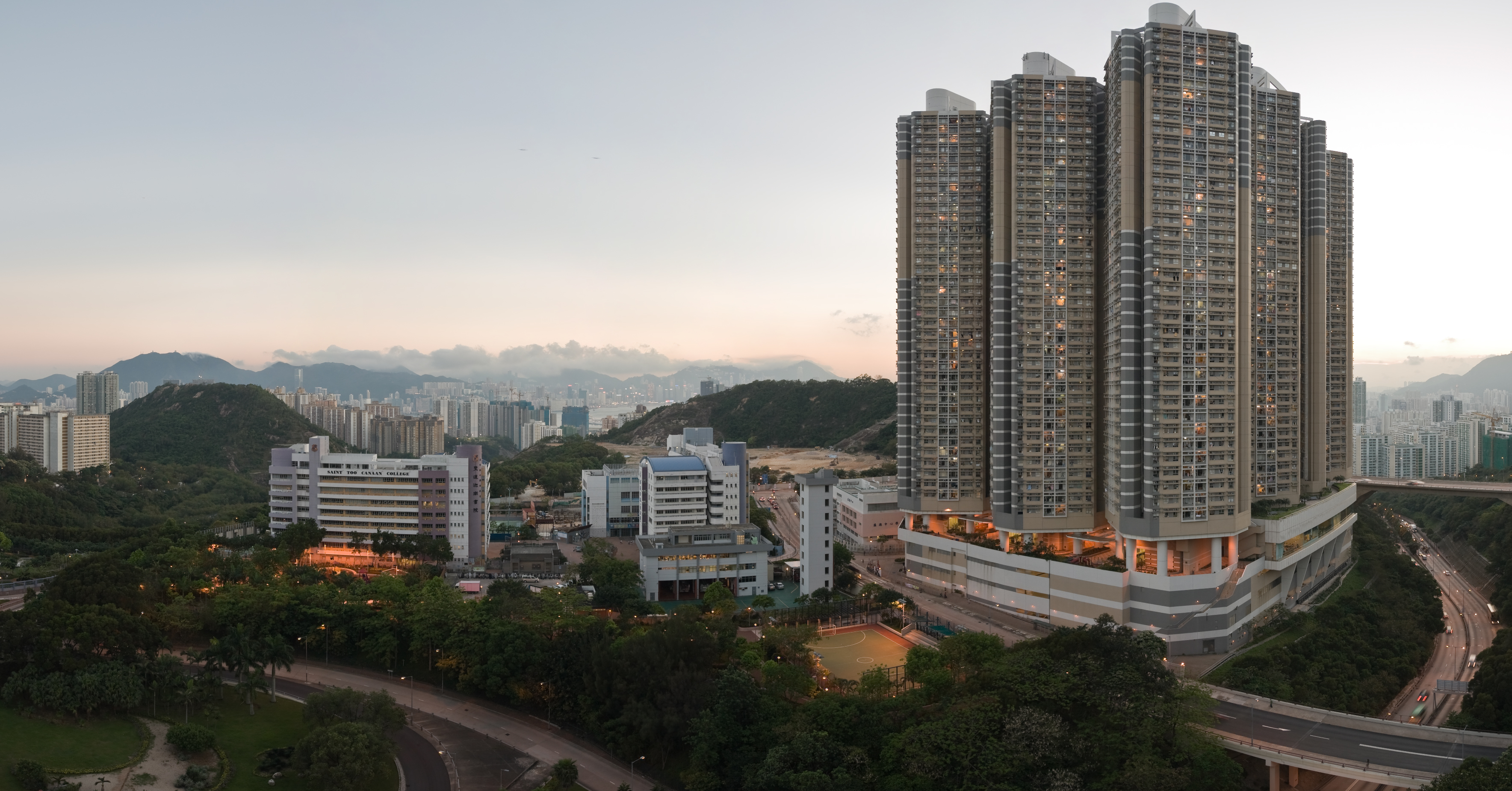 Panorama of southern part of Shun Lee, Kwun Tong, Hong Kong, taken at Civil Twilight. From left to right: Saint Too Canaan College, United Christian College (Kowloon East), Shun Lee Fire Station and Shun Lee Disciplined Services Quarters. The sun is on the right and the camera was facing south. Camera Canon EOS 400D Lens 17-50mm F/2.8 Software Adobe Camera Raw, PTgui Correction Noise, Chromatic aberration